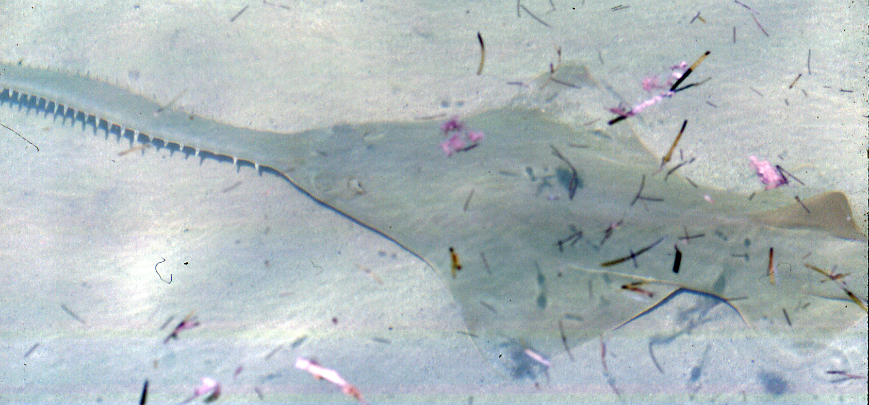 Pristis pectinata Latham, 1794 - smalltooth sawfish. (photo taken by Lee & Mary Ellen St. John) Classification: Animalia, Chordata, Vertebrata, Chondrichthyes, Pristiformes, Pristidae Locality: Bimini, western Bahamas